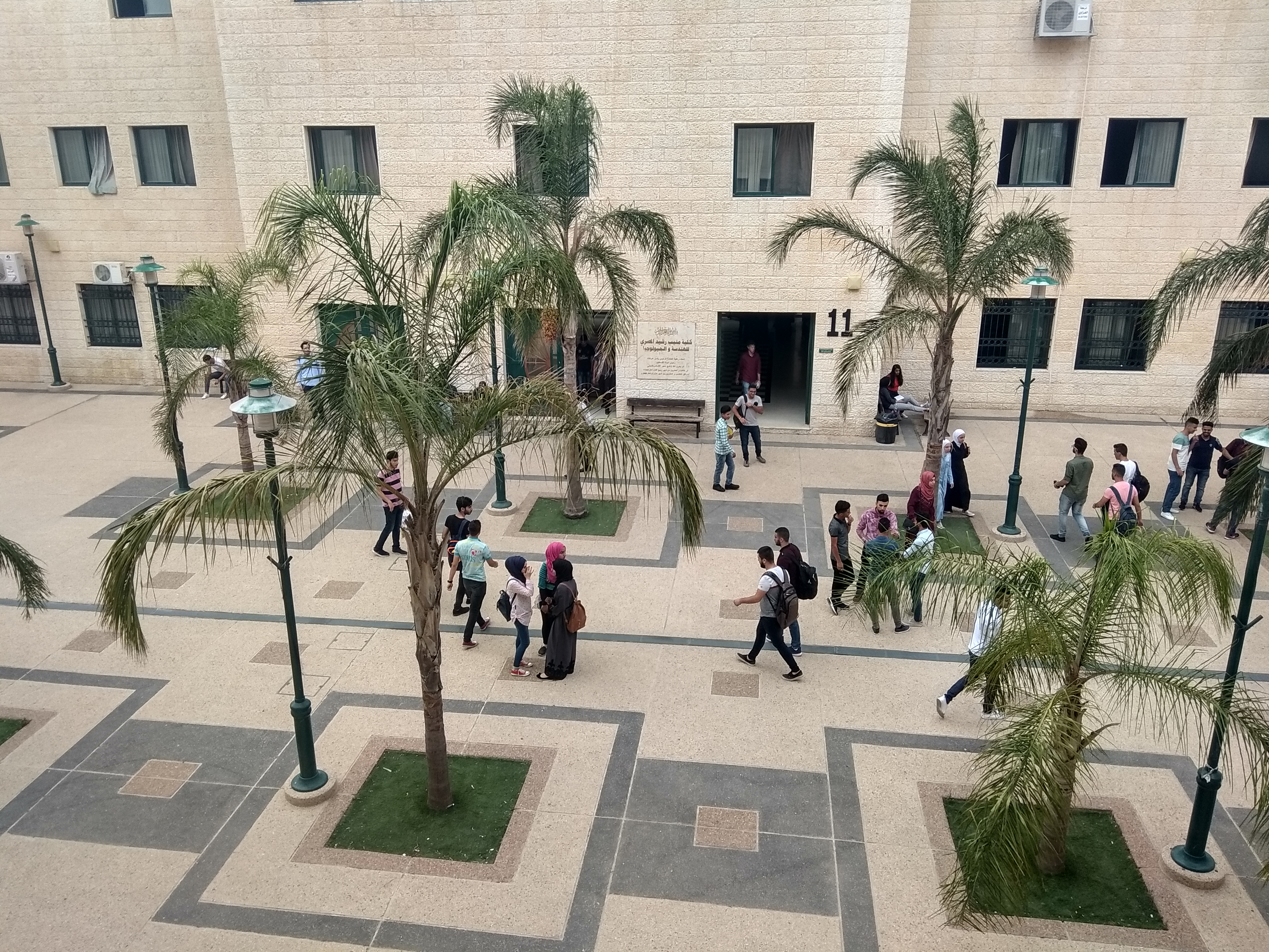 General view of the entrance of the College of Engineering and Information Technology - New Campus - An-Najah National University